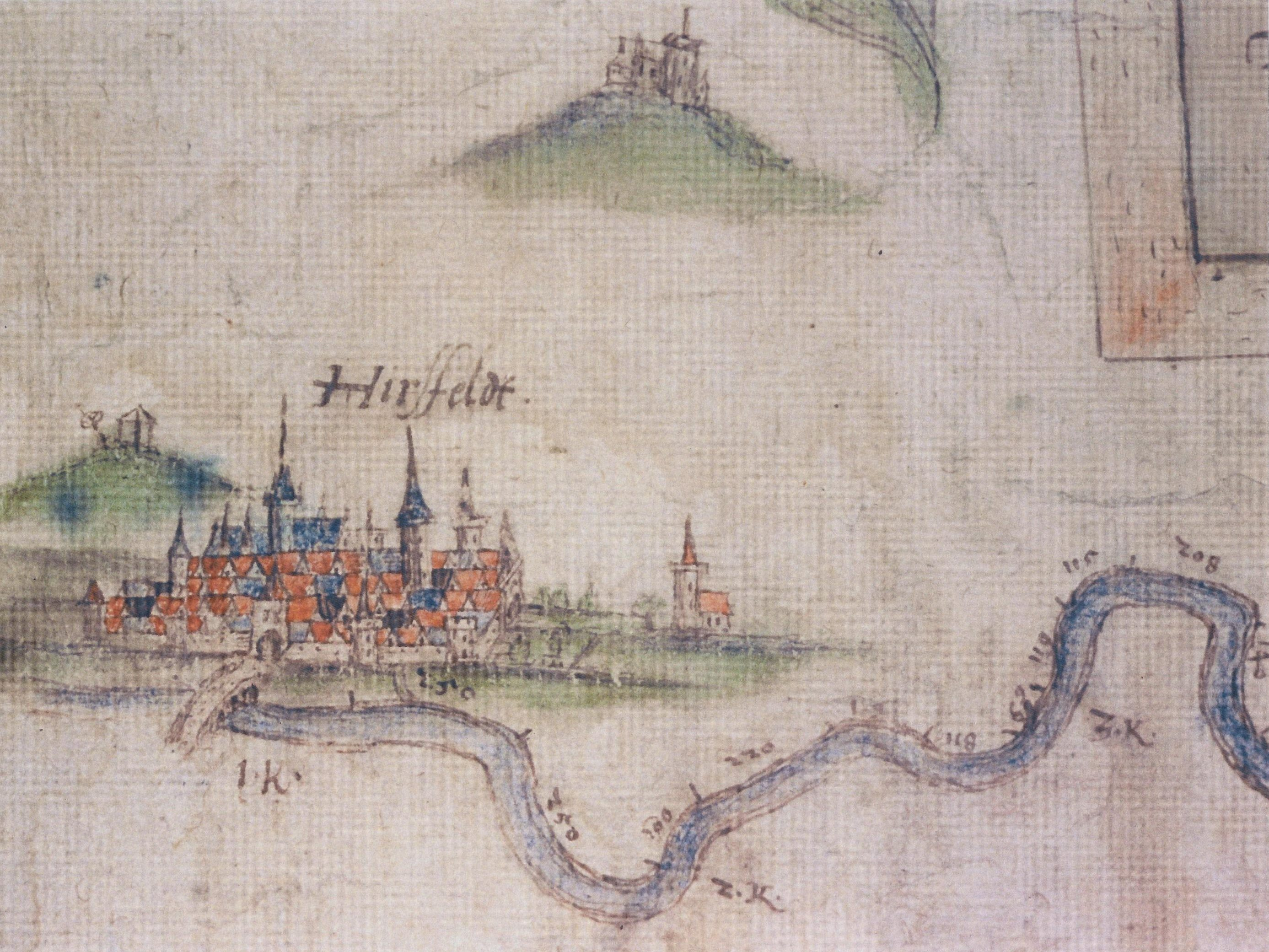 First part of the historic map Fulda-Stromkarte from Joist Moers, drawn around 1597. Is's shows the town Hersfeld (today Bad Hersfeld), the old bridge over the river Fulda the church Klauskirche outside of the defensive wall from Hersfeld, the Breaking wheel and gallows, the hill Frauenberg with its monastery.